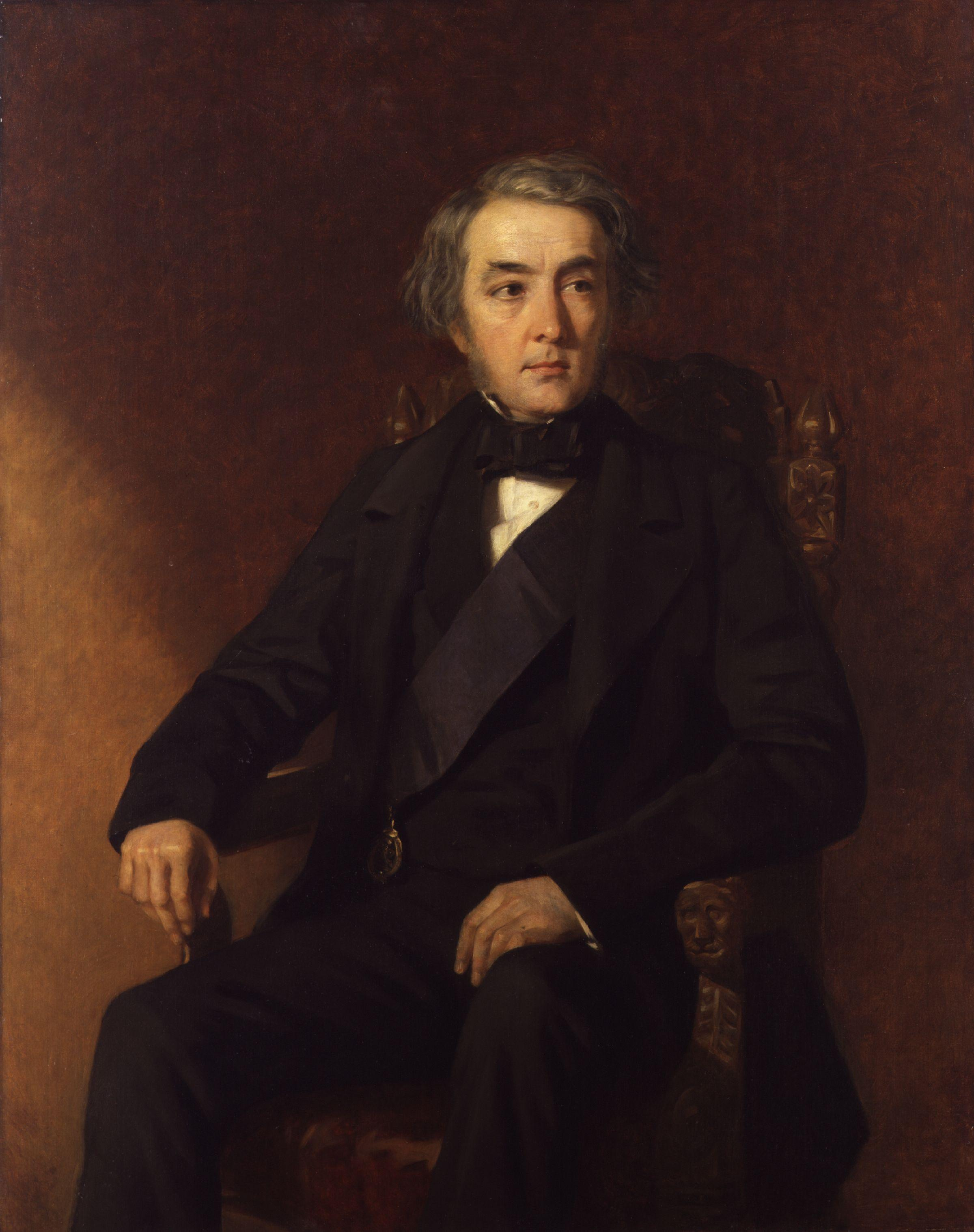 Francis Egerton, 1st Earl of Ellesmere, by Edwin Longsden Long (died 1891). All images in this batch have been confirmed as author died before 1939 according to the official death date listed by the NPG.